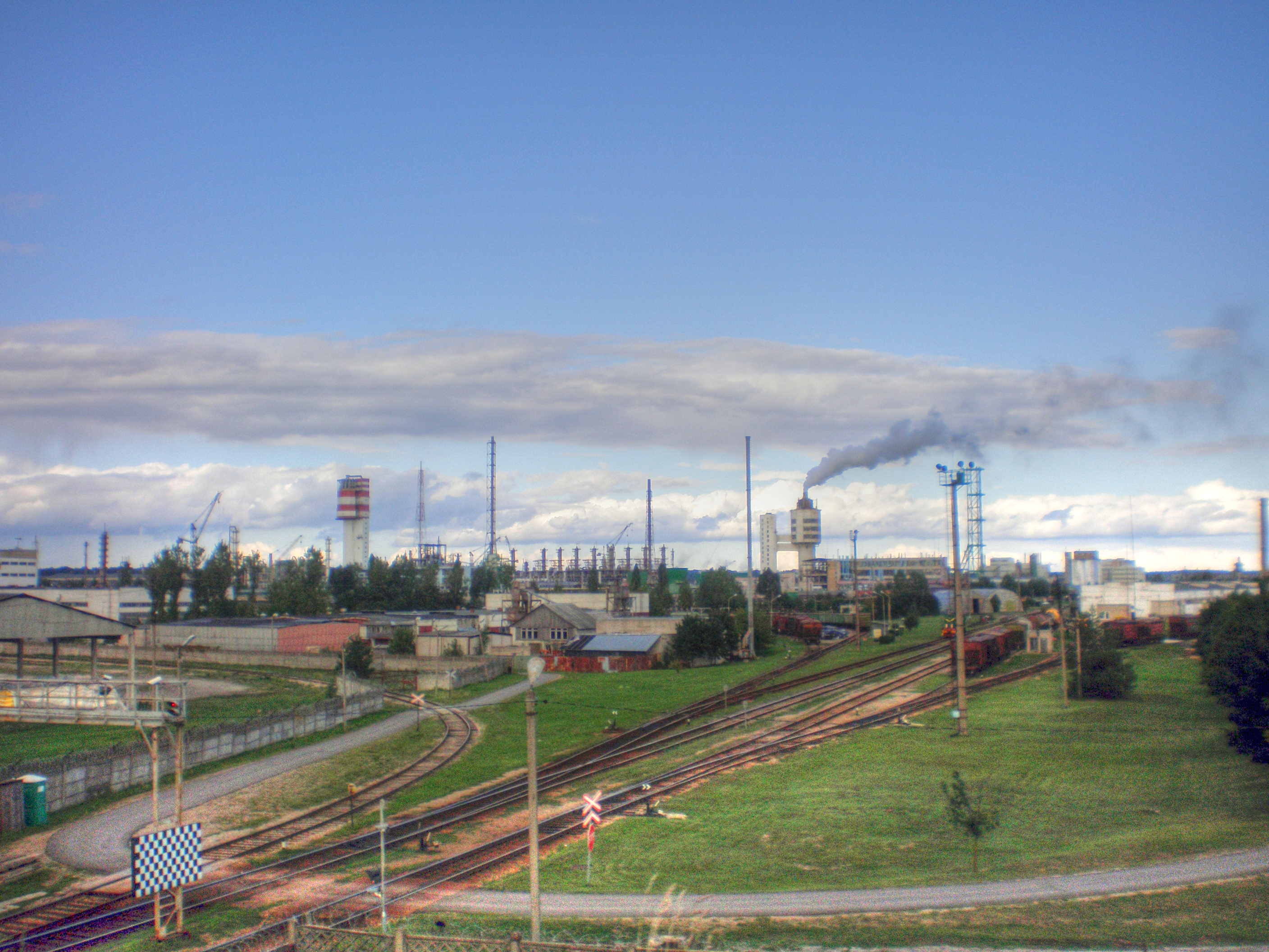 "Achema", AB